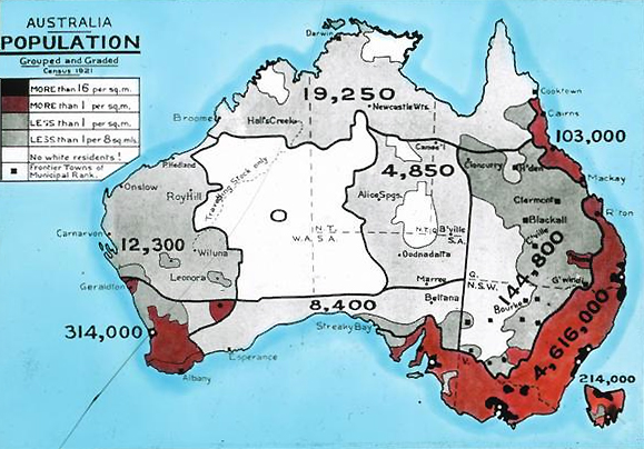 [Map of] Australia, population, grouped and graded, census 1921 - lantern slide